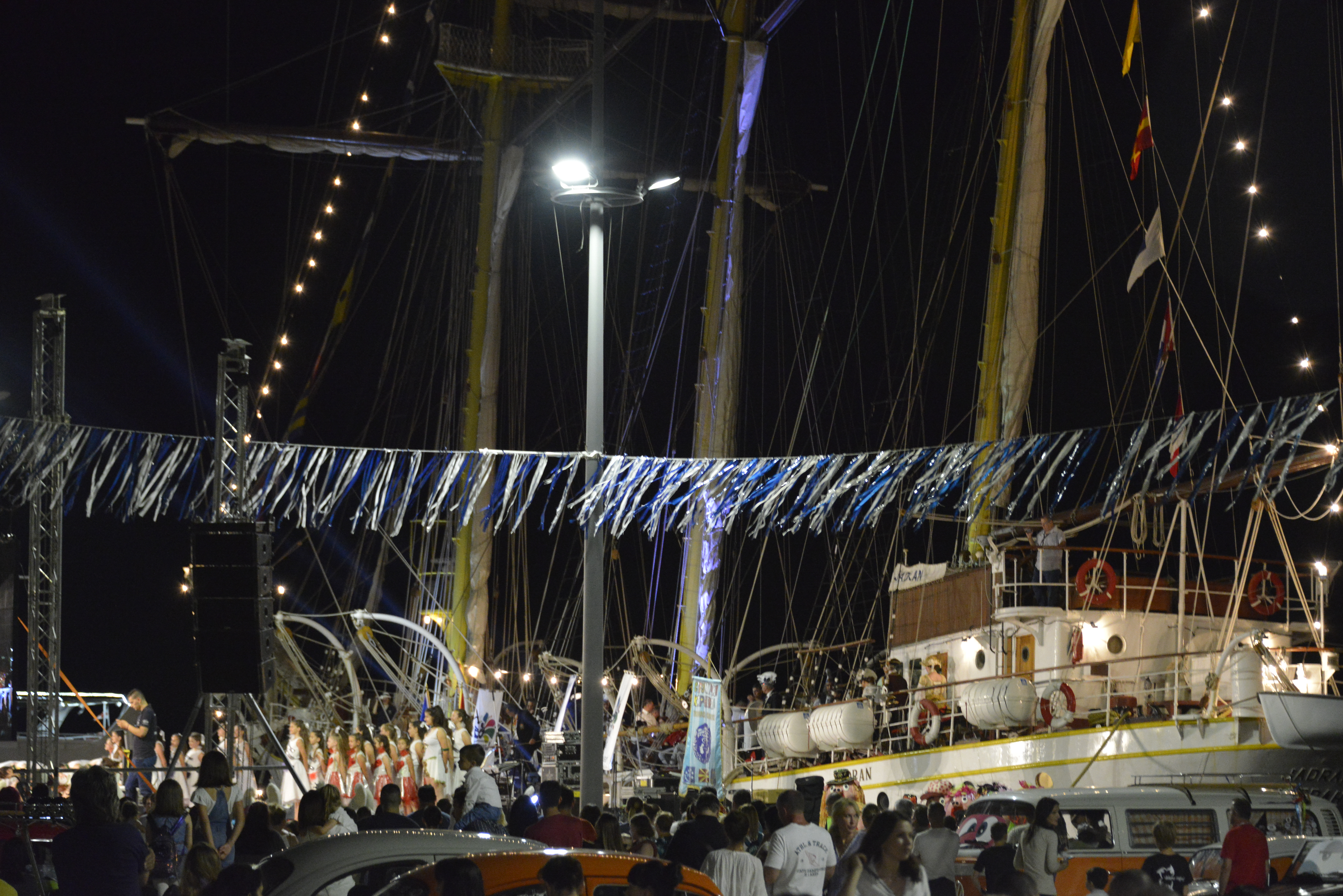 Carnival in Tivat in 2019, with the main stage in front of the ship "Jadran"